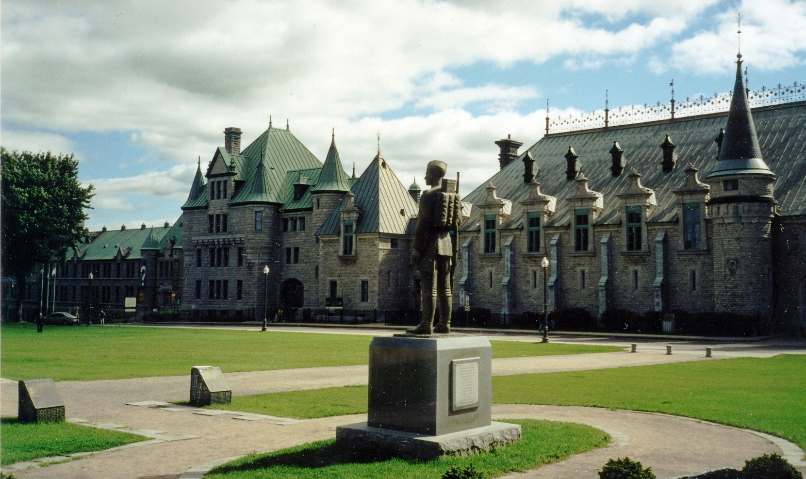 Headquarters and Barracks of Les Voltigeurs de Québec, Québec City Canada. In the foreground is the Regimental War Memorial.